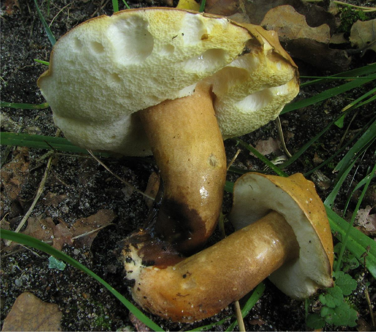 Gyroporus castaneus (Bull.:Fr.) Quélet Location: Gotland, Sweden Observation Notes: Growing under hardwoods (Corylus, Quercus) For more information about this, see the observation page at Mushroom Observer.